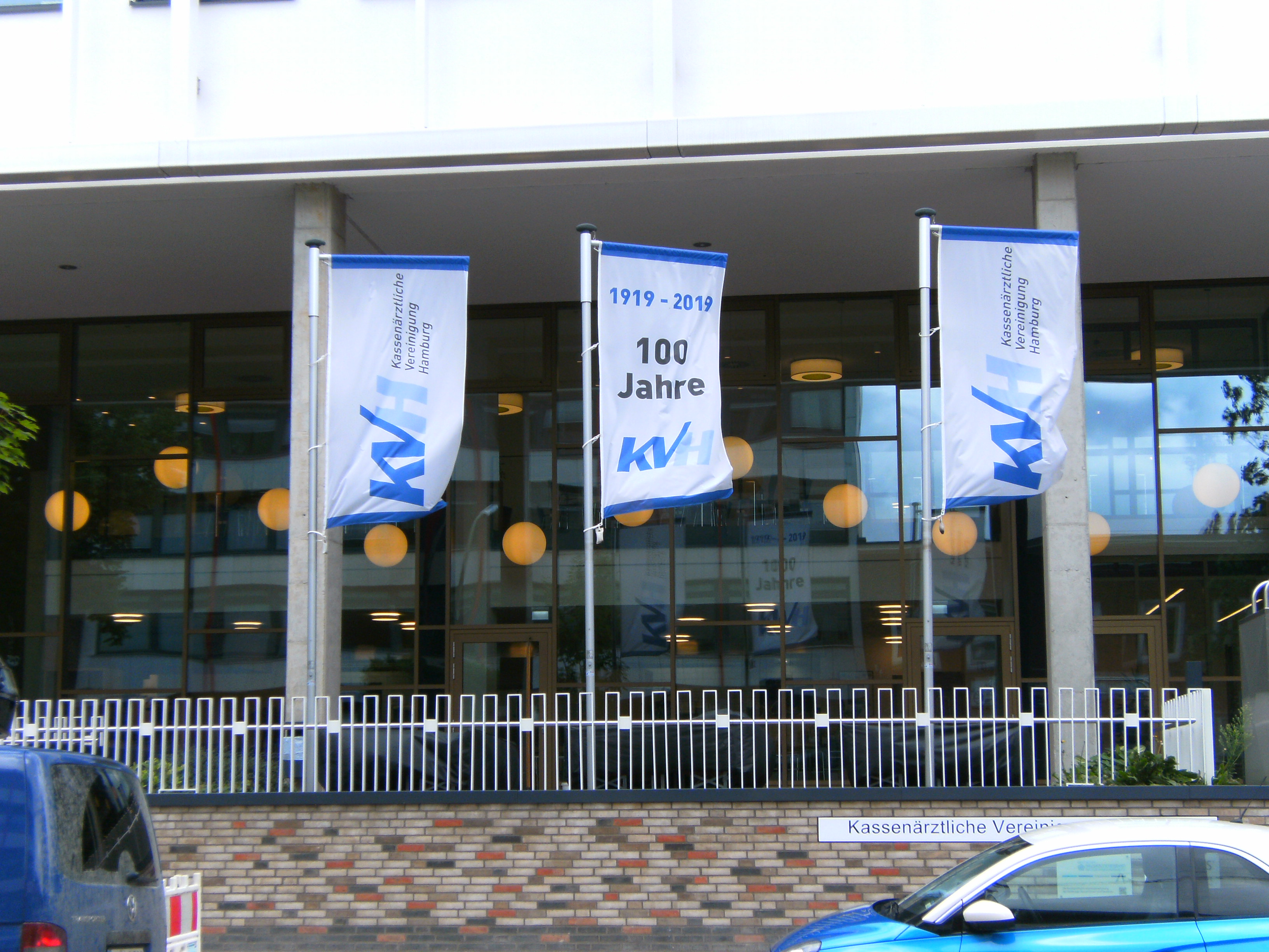 Hamburg, Germany, Humboldtstraße 56: New building of Kassenärztlichen Vereinigung Hamburg (physicians) of 2017. Flags on the occasion of 100 years celebration.